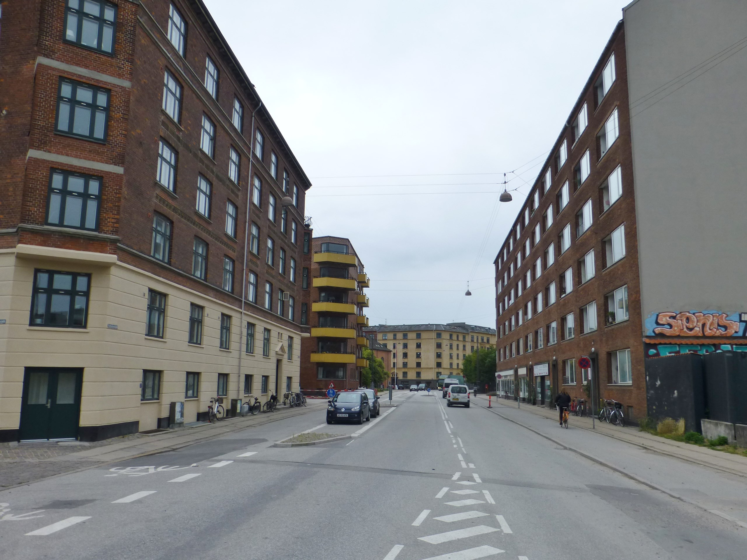 The street Vordingborggade in Østerbro in Copenhagen.